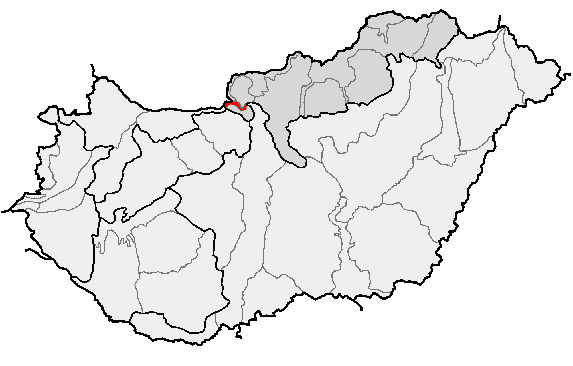 Location of geographical microregion of Visegrádi-Dunakanyar (red) and macroregion of Északi-középhegység (gray) within subdivisions of Hungary.